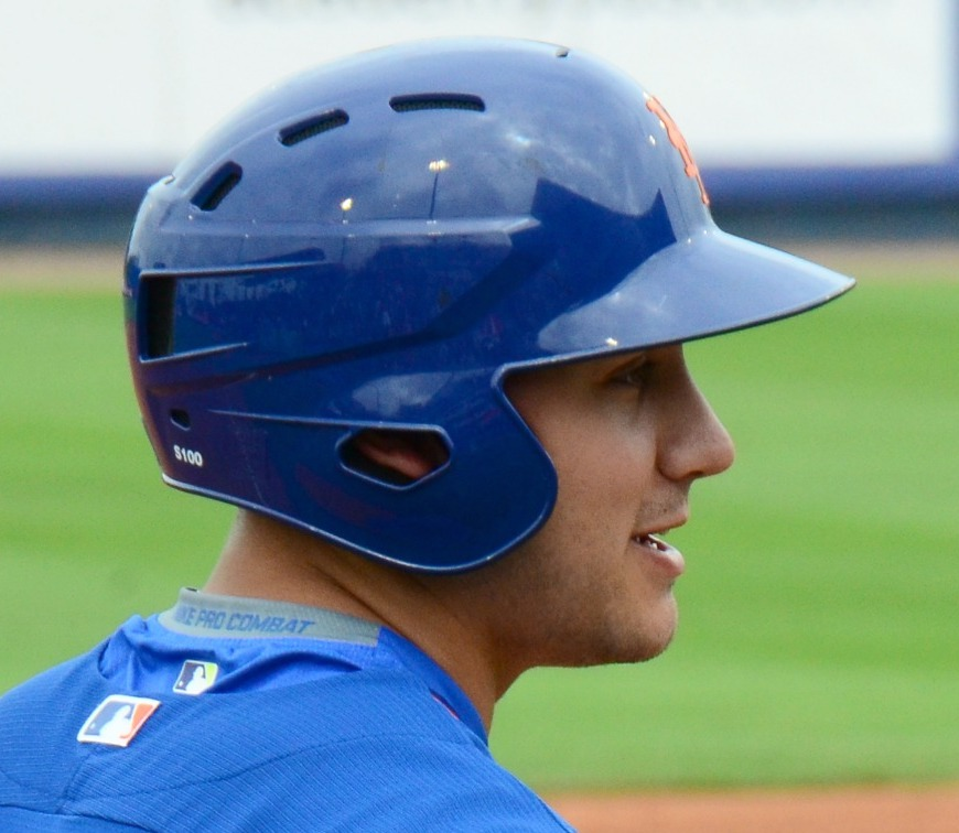 Michael Conforto